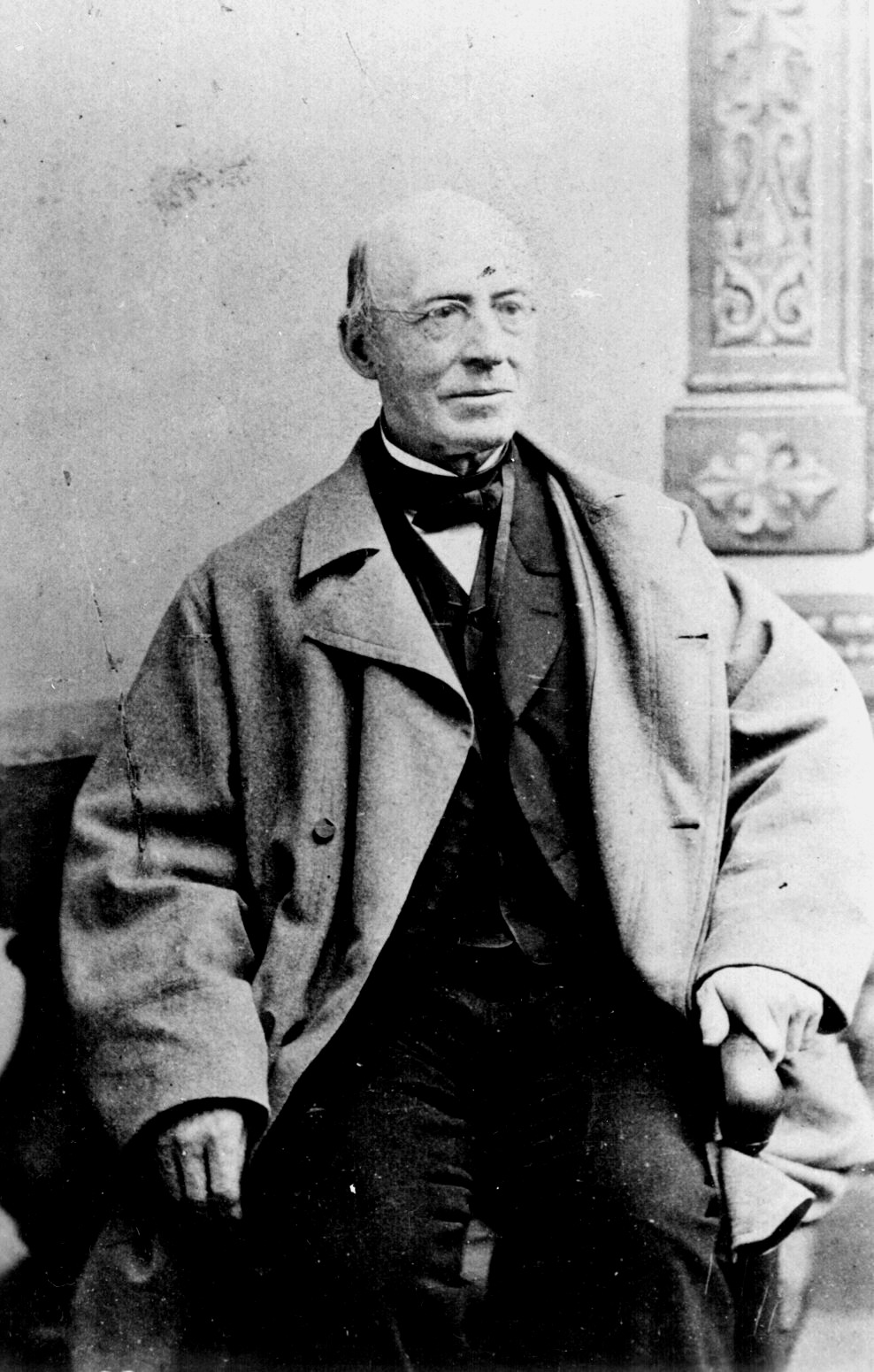 American abolitionist William Lloyd Garrison, three-quarter-length, seated